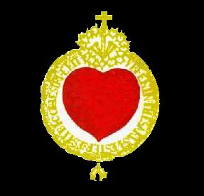 Del Socorro Brotherhood.